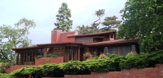 Photo of Frank Lloyd Wright's Hanna House - Stanford, CA